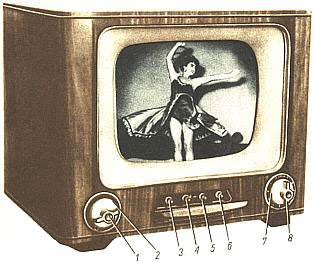 Tube TV-set of 1957-60, model OT-1471 "Belweder". 14-inch screen diagonal. Designed & made in Poland. / Telewizor "Belweder".